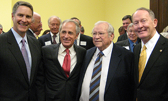 From left: Former Senator Bill Frist, Senator Bob Corker, Former Senator Howard Baker, and Senator Lamar Alexander at the Capitol shortly before Corker's inauguration as Senator (January 3, 2007).